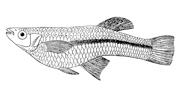 Drawing of Gambusia punctata, the Cuban gambusia